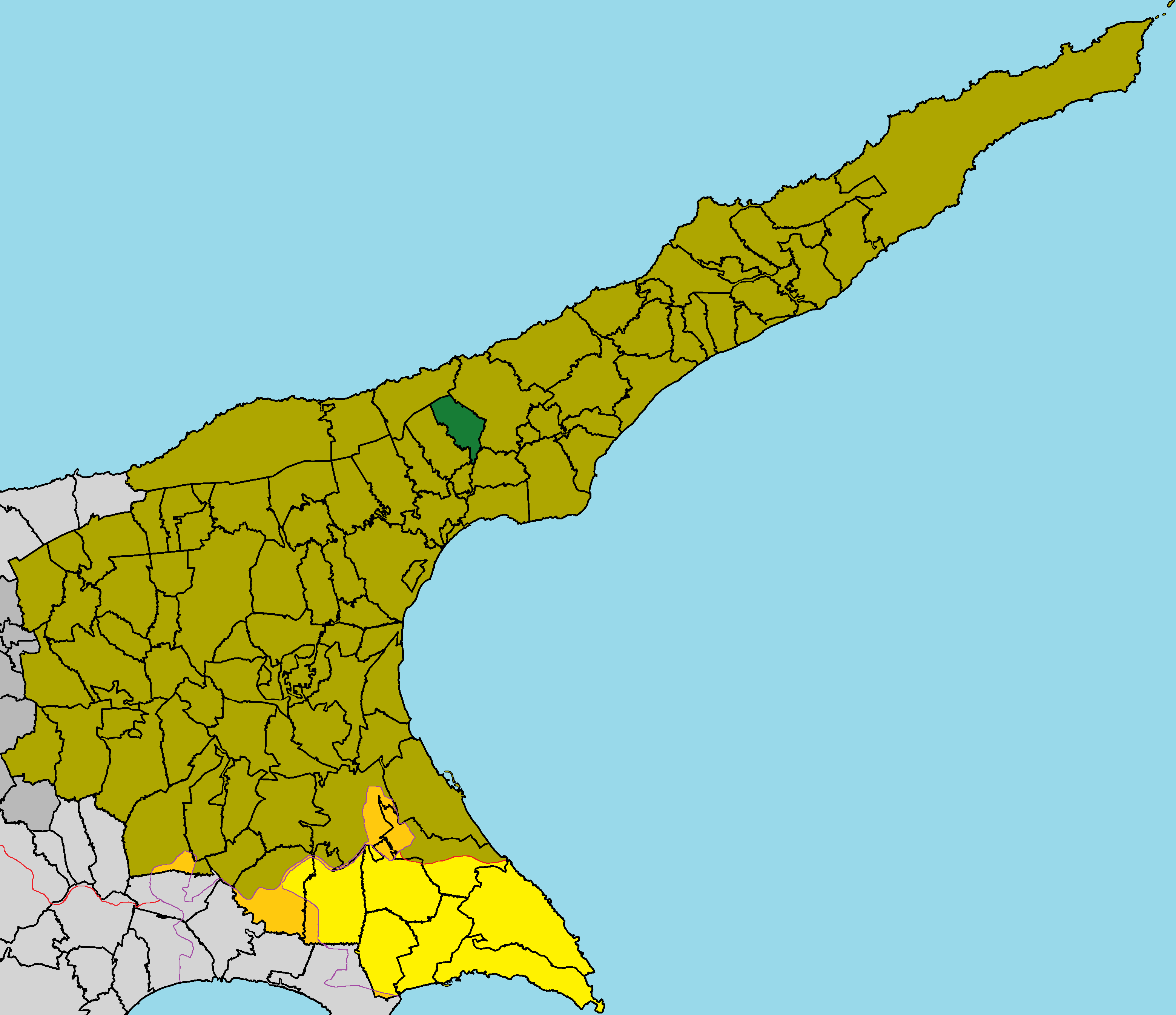 Krideia in Famagusta District (de jure).